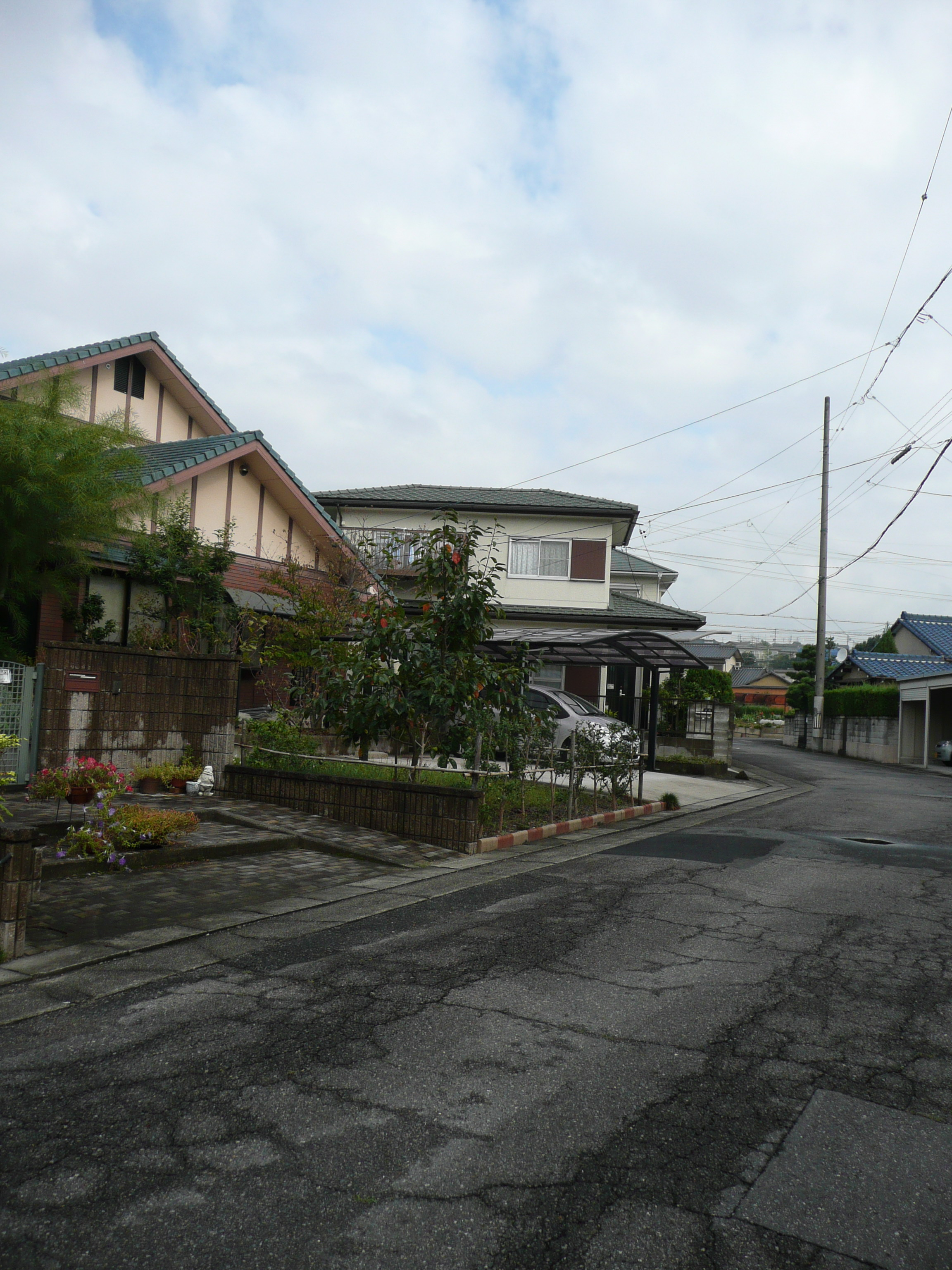 白山城跡地